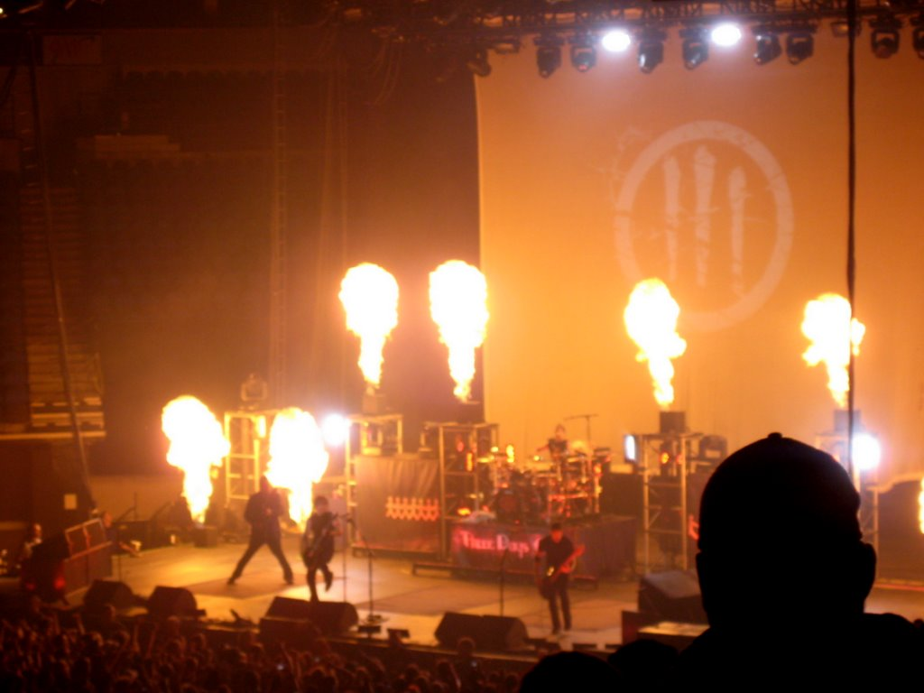 Three Days Grace